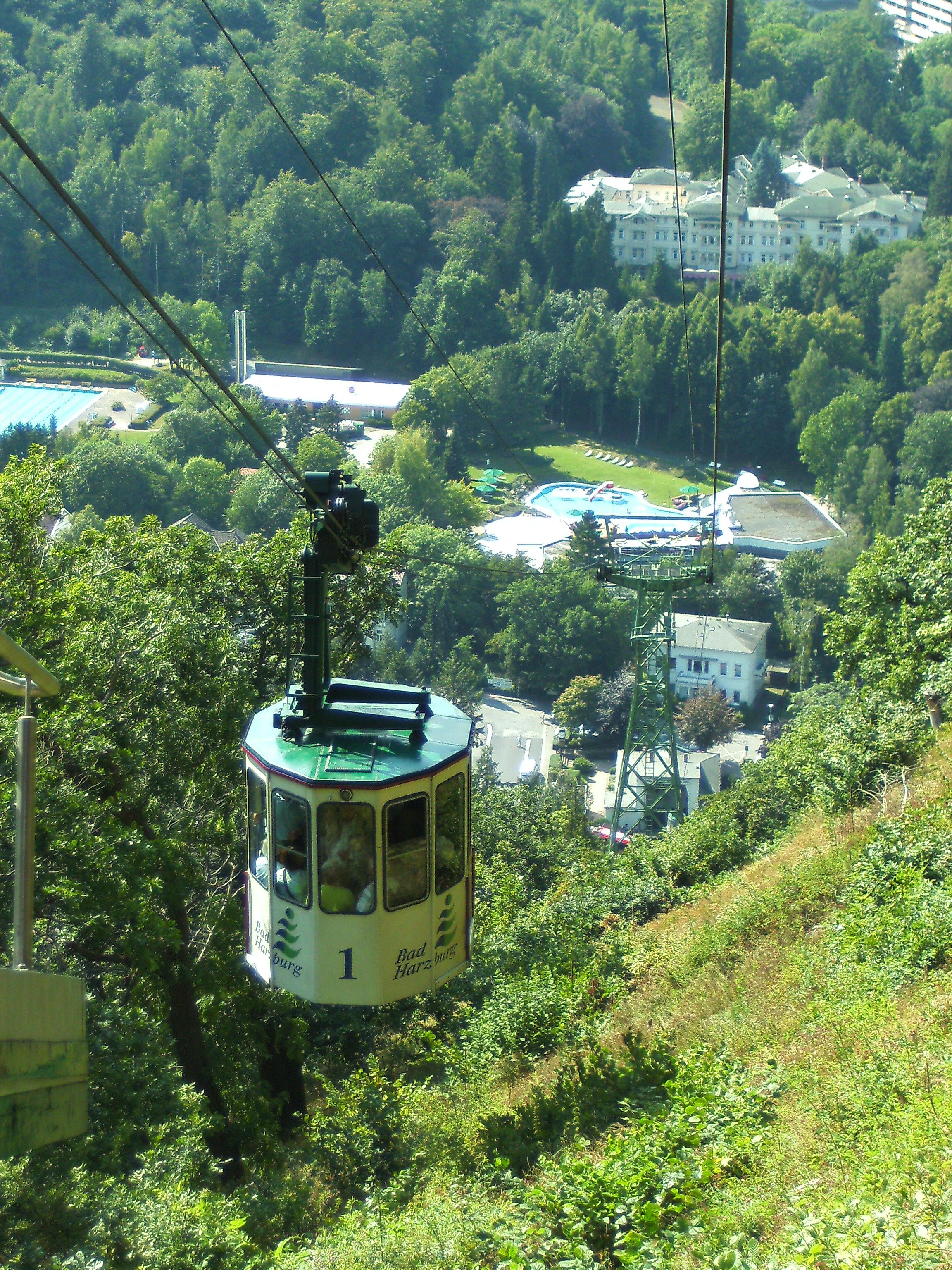 Cabin of Burgberg Aerial Tramway